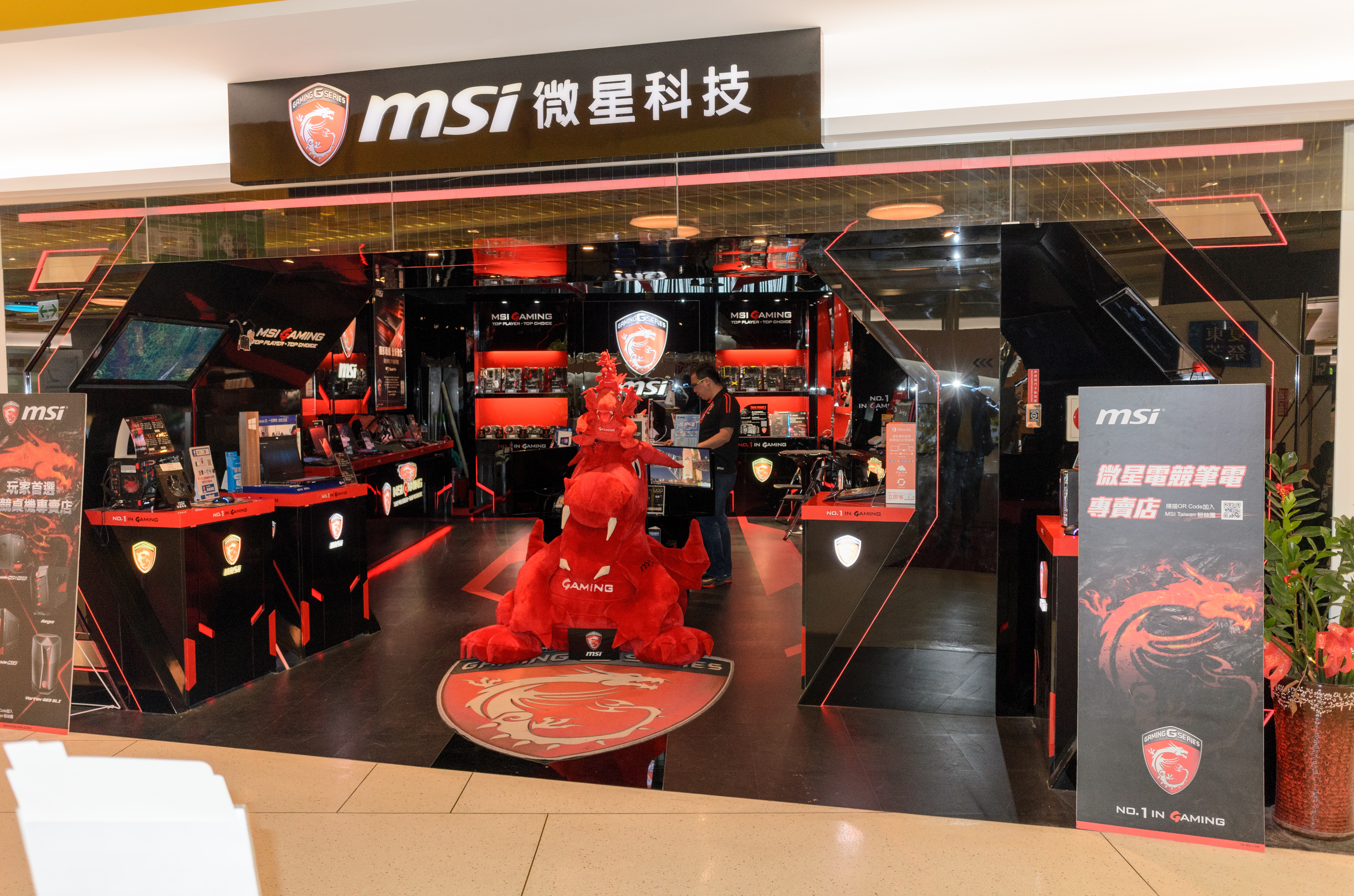 Syntrend Flagship Store of Micro-Star International at Syntrend Creative Park 2F.